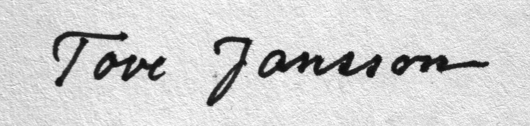 Signature of the Finnish author Tove Jansson (1914–2001), from a signed copy of her book "Muumipapan urotyöt" (printed 1991).